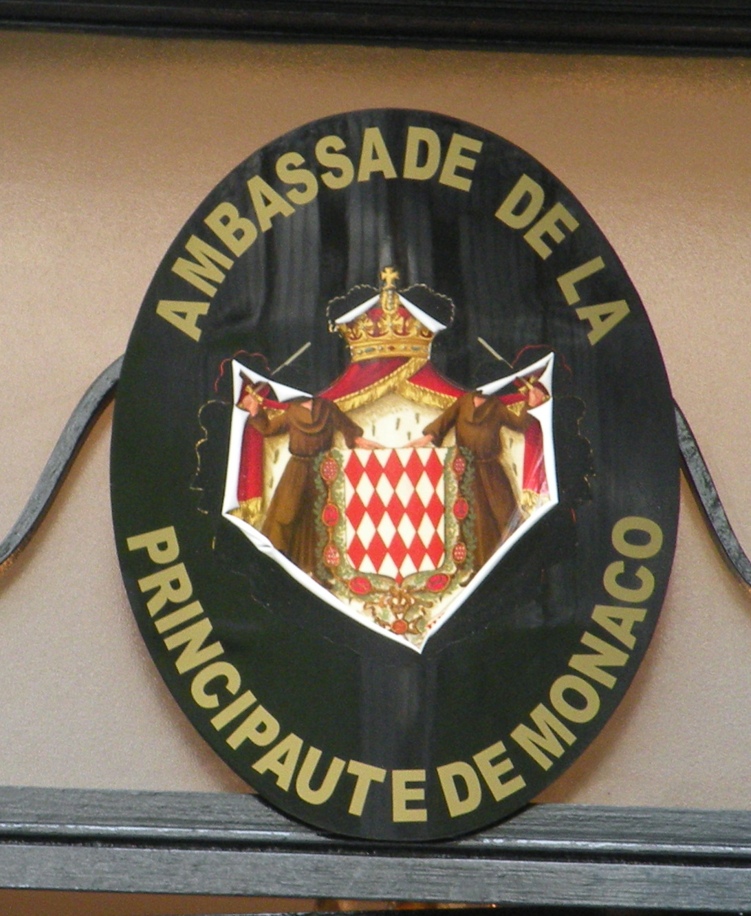 Coat of arms of Monaco on the front of the embassy in Paris.